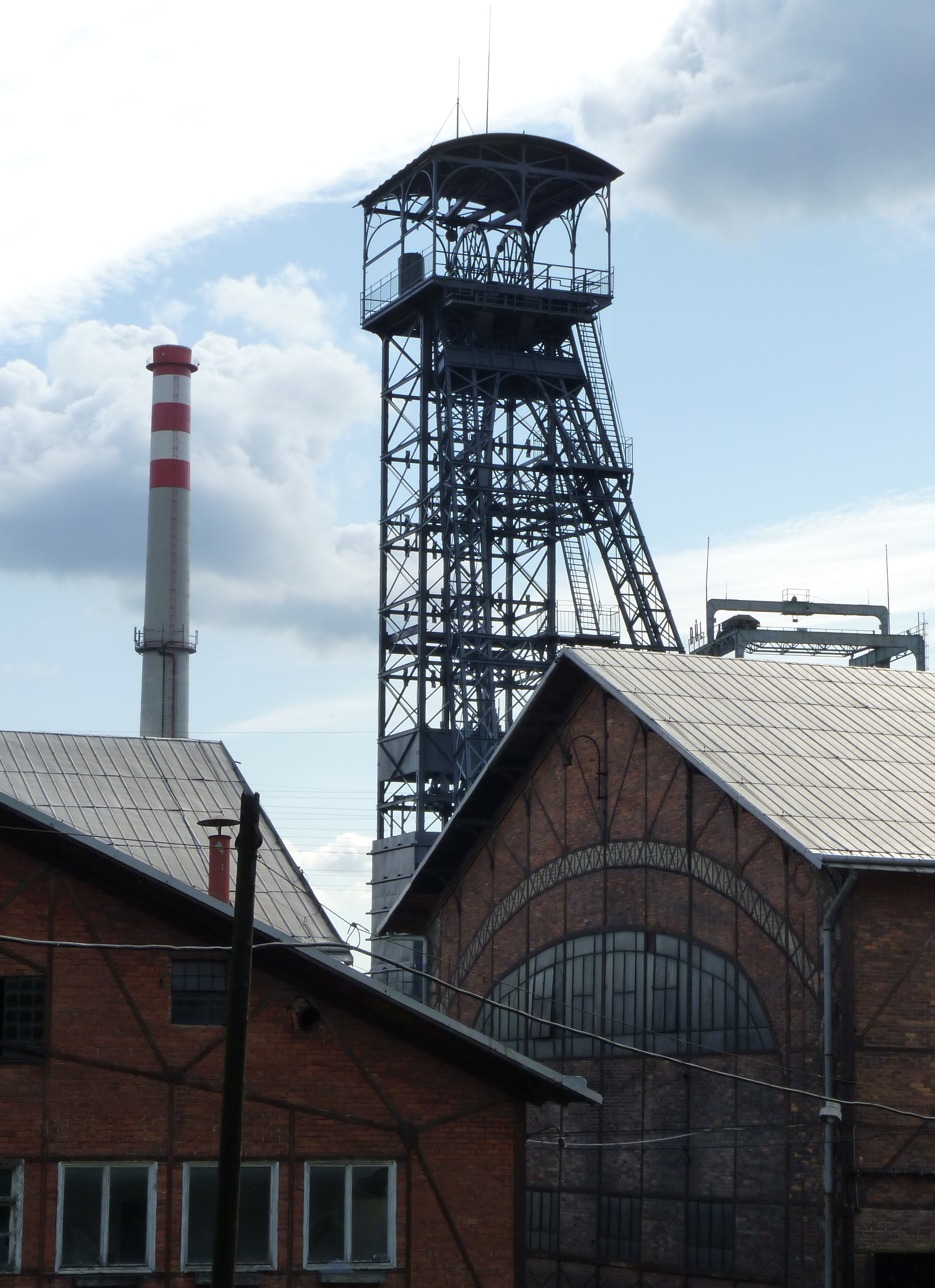 Coal mine Barbora. Karviná, Karviná District, Moravian-Silesian Region, Czech Republic